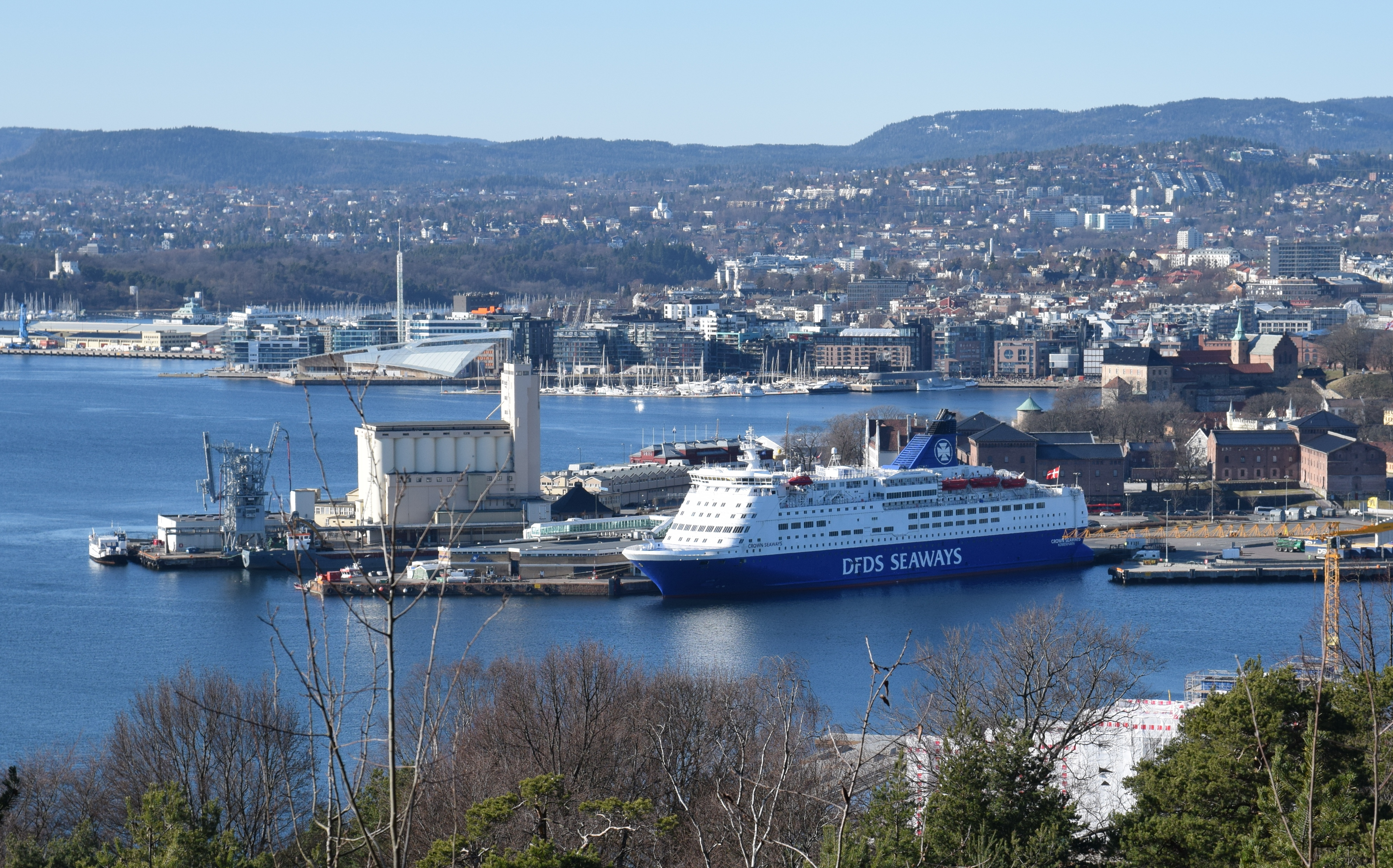 Vippetangen seen from Ekeberg. Akershus Palace and Fortress in the background, DFDS ship for Copenhagen in the foreground.